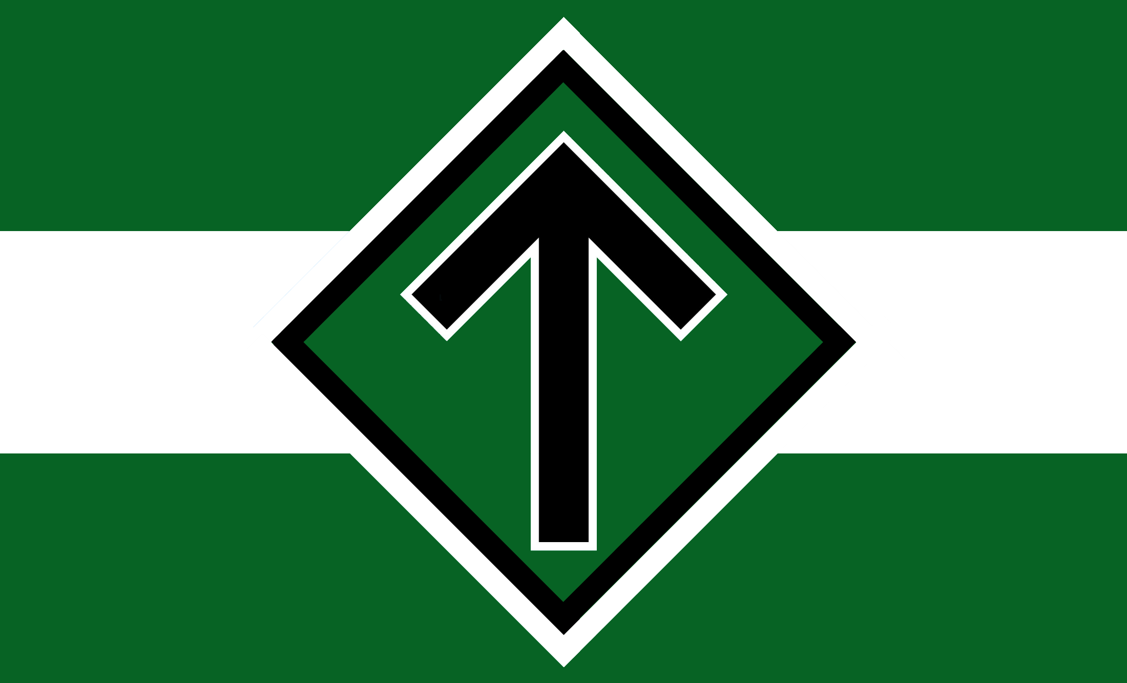 Flag of Nordic Resistance Movement